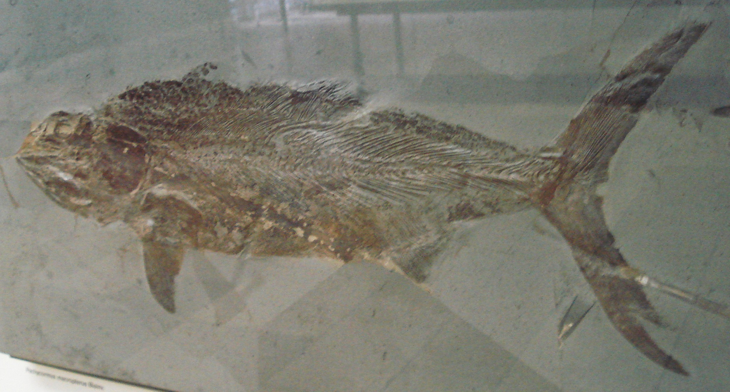 fossil of pachycormus